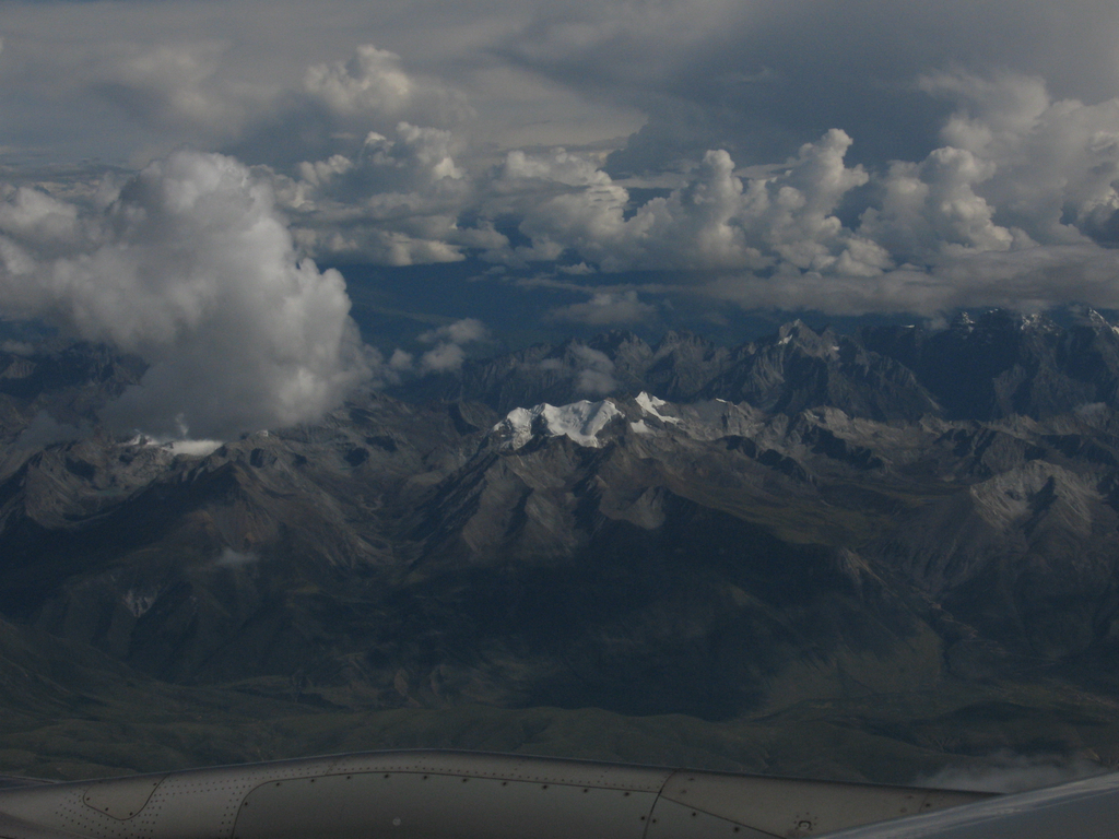 Southwest of Aba (Ngawa) Tibetan and Qiang Autonomous Prefecture, Sichuan, China